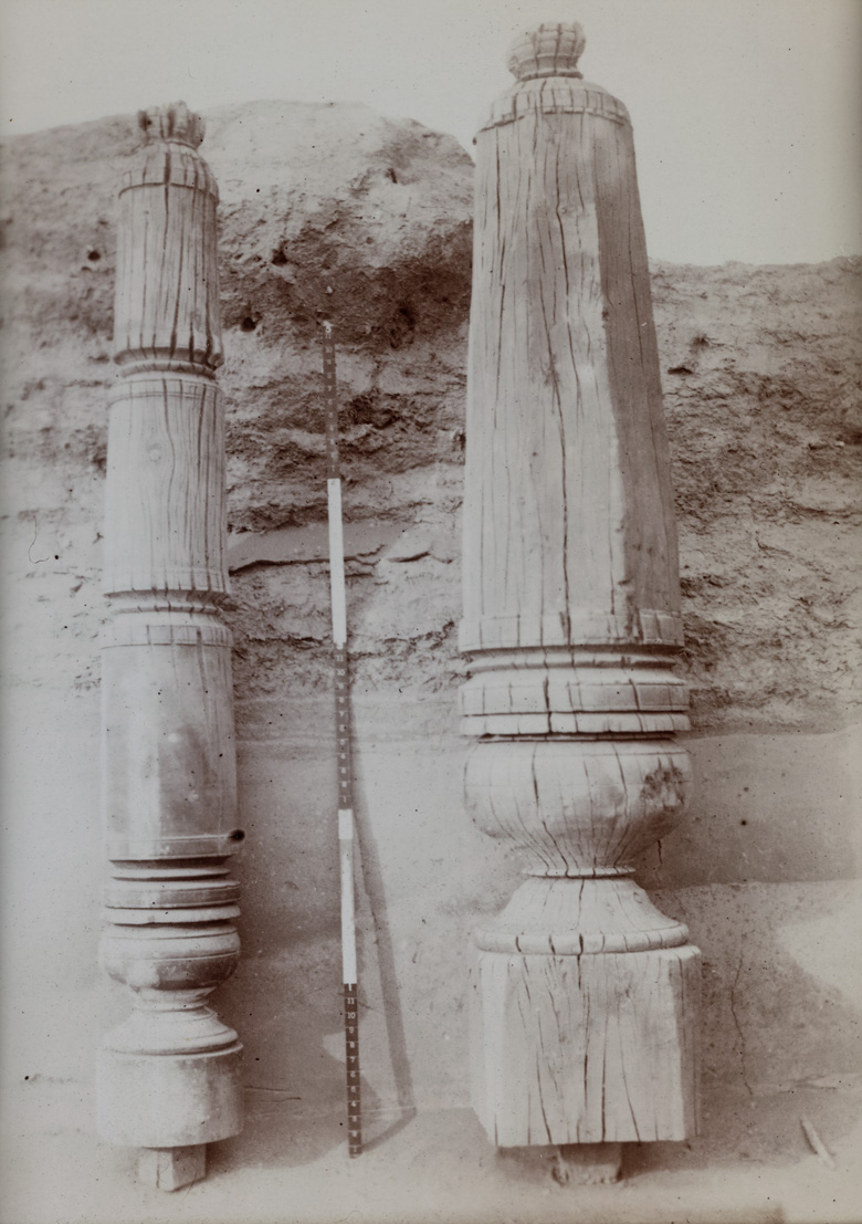 Pillars from E.iv vi., Endere. 11 November 1906.